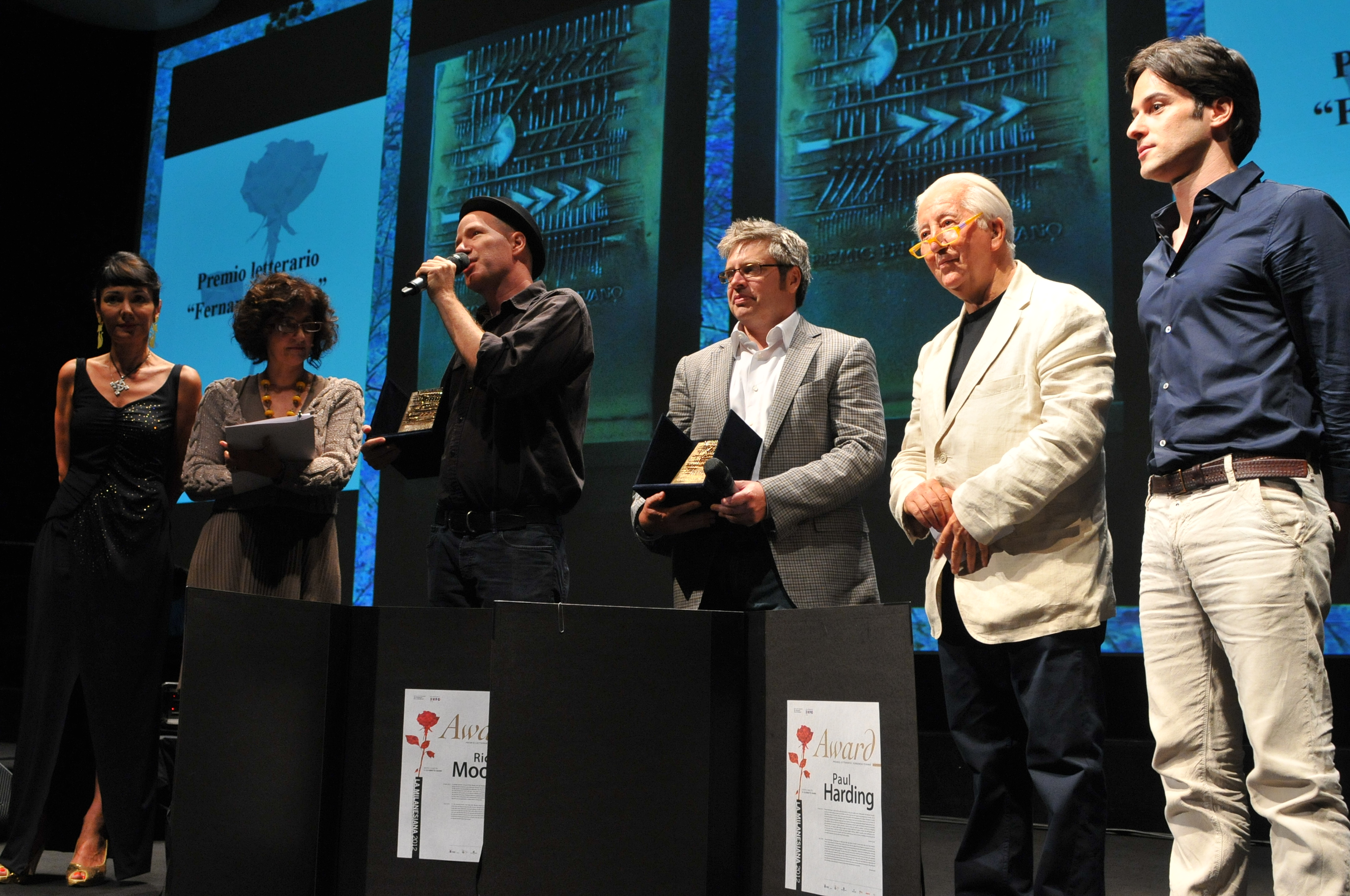 Elisabetta Sgarbi, Lidia Zanardi, Rick Moody, Paul Harding, Valerio Di Carlo, Enrico Rotelli